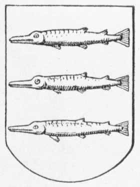 Coat of arms of Tåsinge, 1610 version. I am not sure why Thiset includes Tåsinge in this list as he doesn't describe it as a hundred. Illustration from the article Om danske By- og Herredsvaaben written by Anders Thiset and published in Tidsskrift for Kunstindustri 1893-1894.